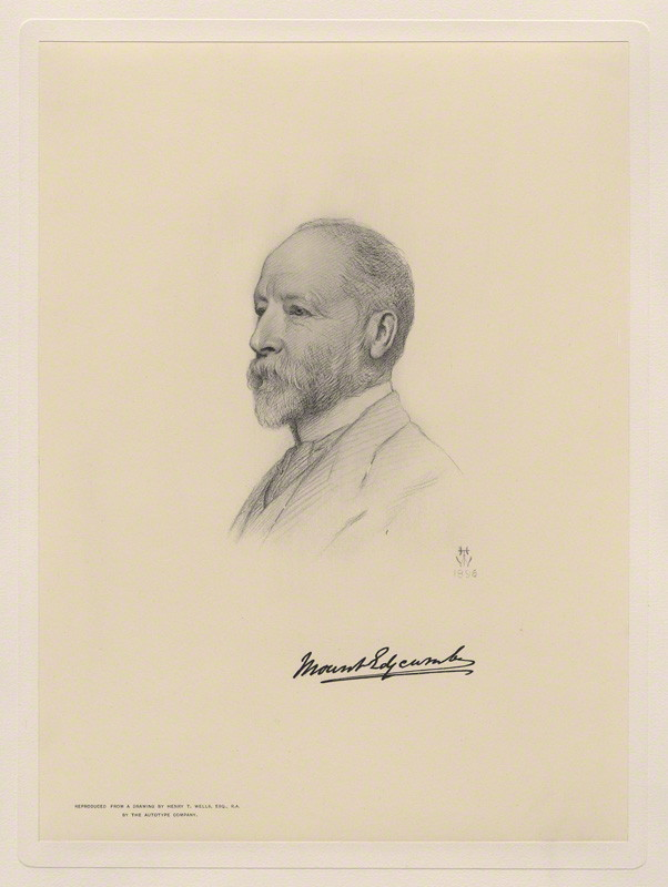 William Edgcumbe, 4th Earl of Mount Edcumbe